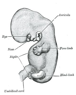 Human embryo of about six weeks. (His.)